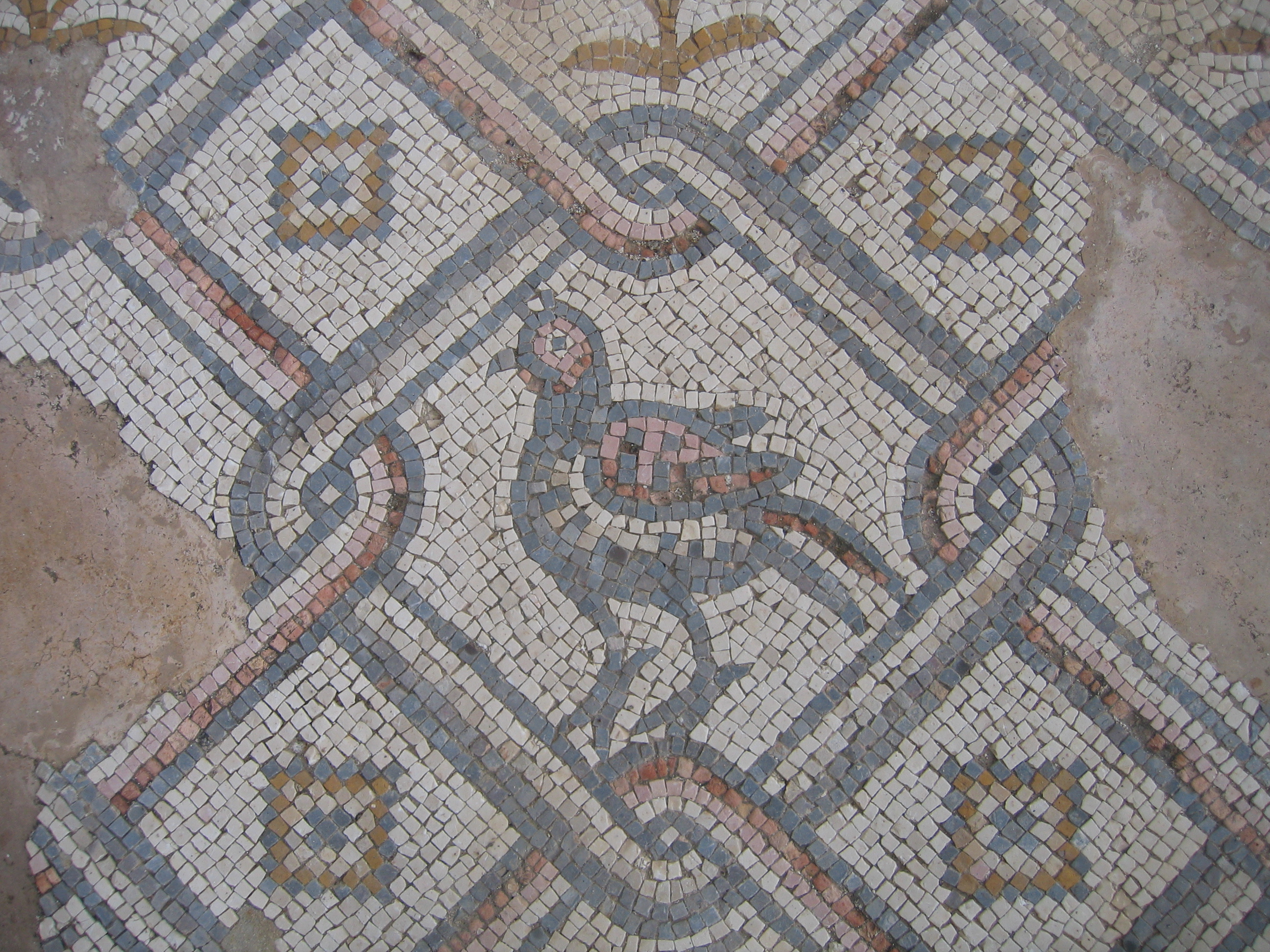 Kursi, Israel